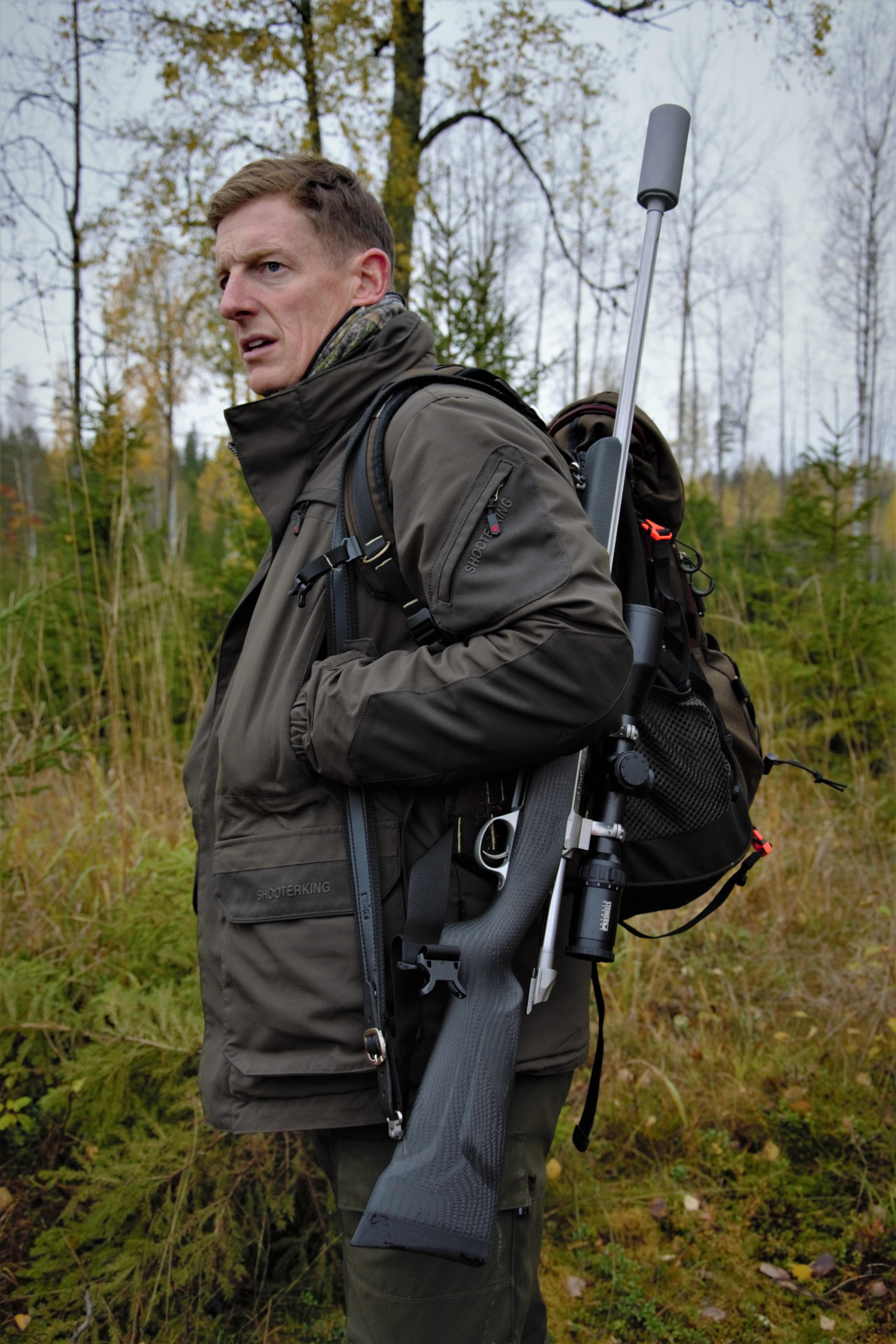 Professional hunter Paul Childerley on a driven deer hunt in Finland with a Sako 85 in .243 Winchester and mounted suppressor, 2017